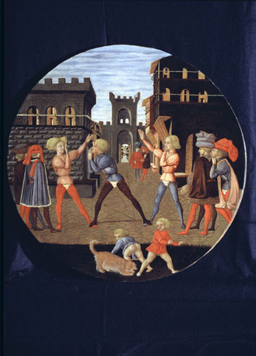 Scheggia painting, beginning of XV century